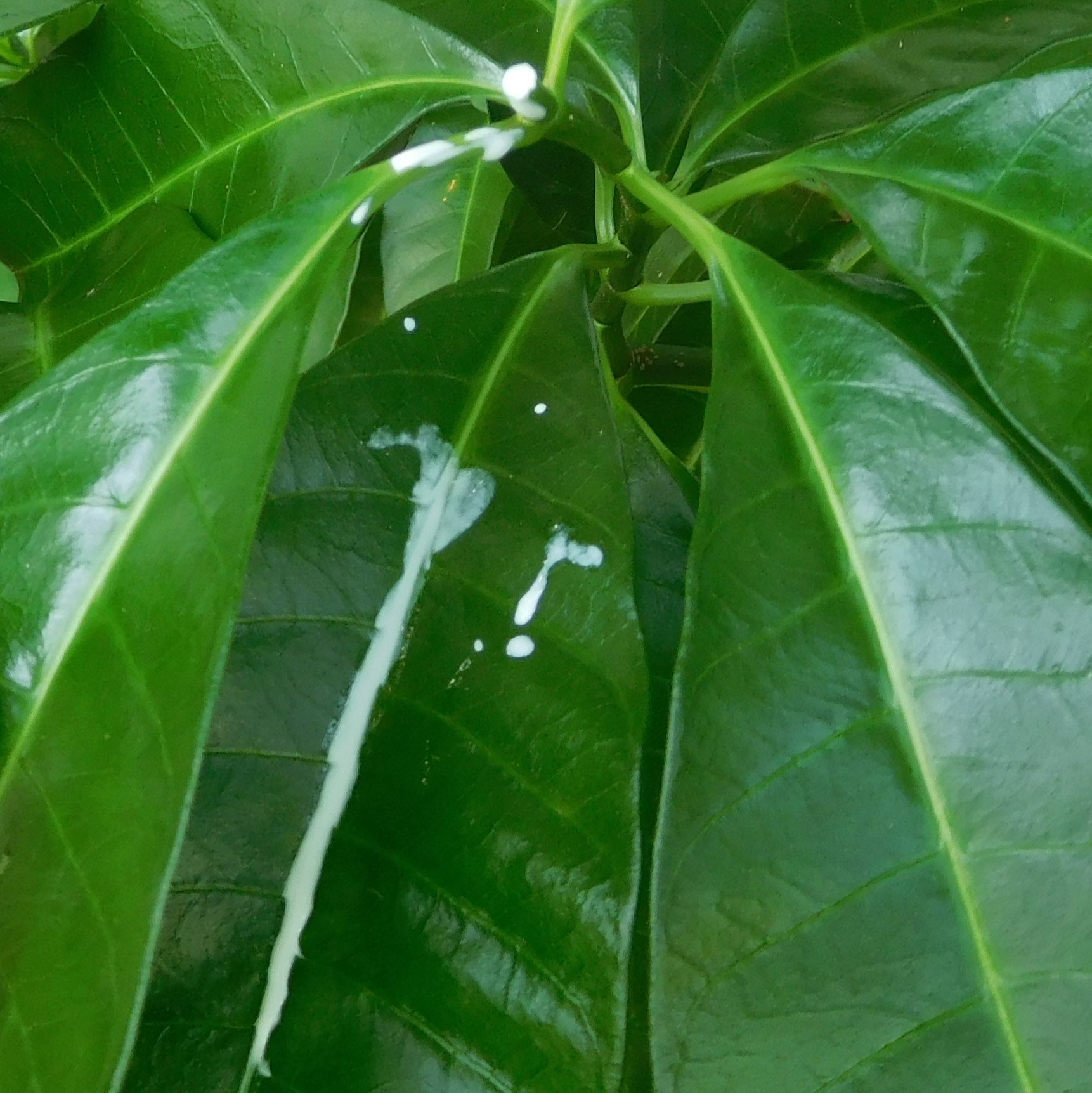 Milkwood